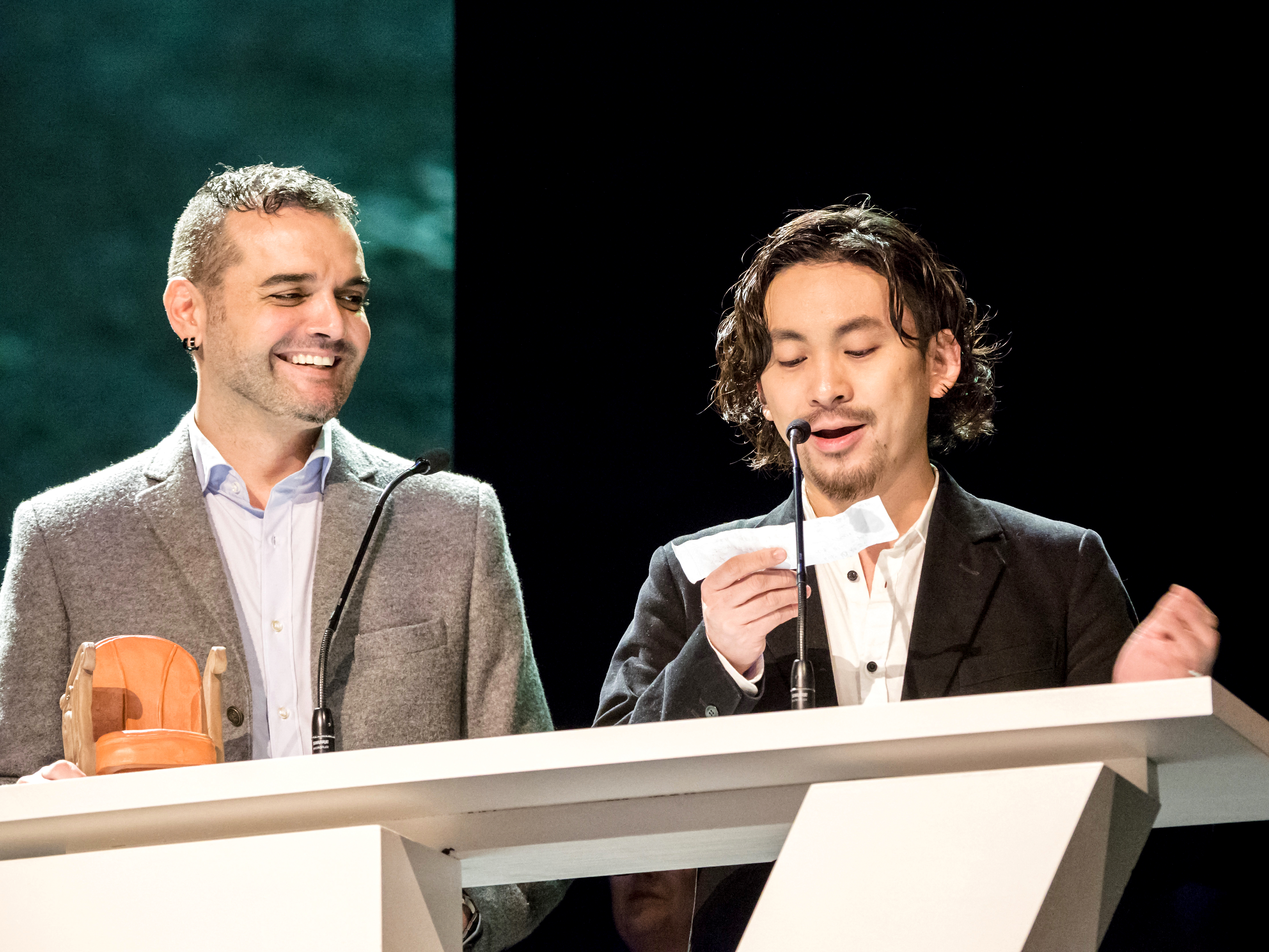 Gala Awards 54 Gijon International Film Festival 26 November 2016 - Audience Choice Advent. Dir. Roberto F. Canuto & Xu Xiaoxi